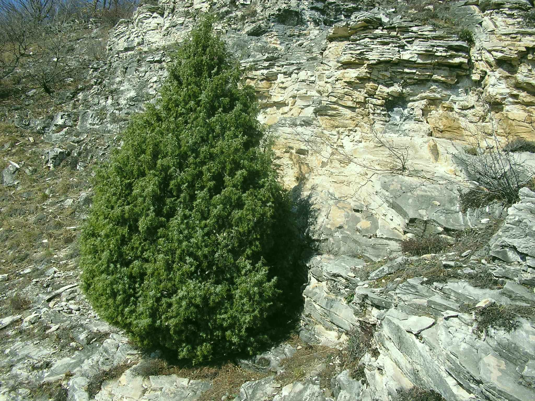 Juniperus oxycedrus (Foresto nature reserve, IT)